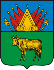 Kuibyshev (Kainsk, Novosibirsk oblast), coat of arms (1785)